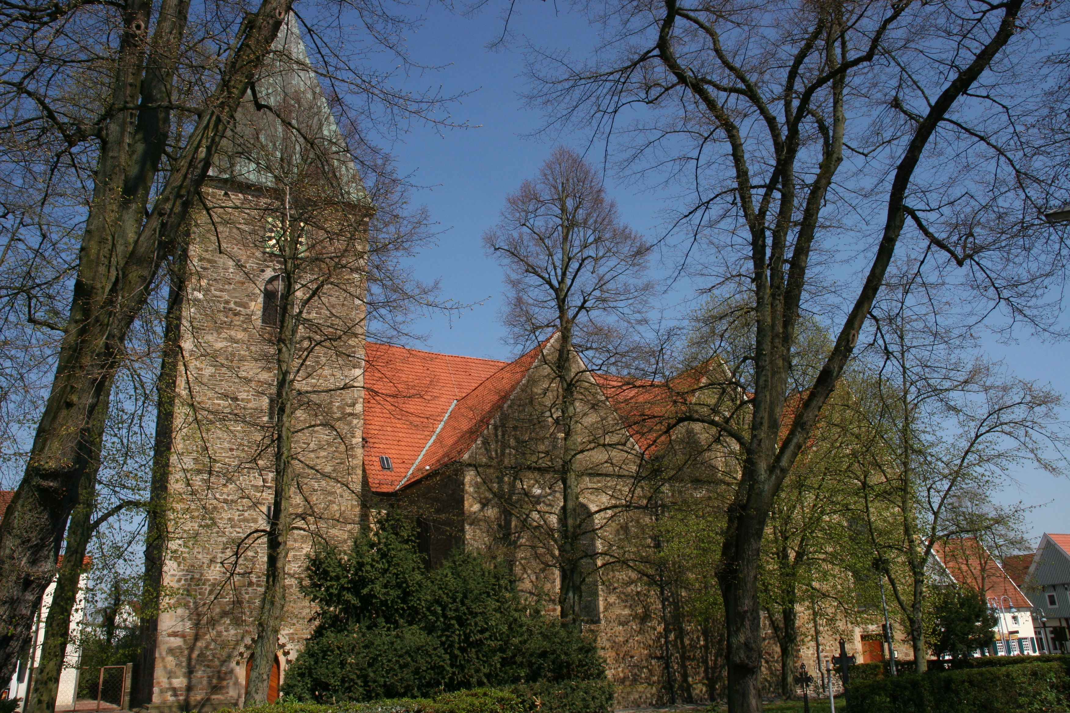 Bramsche: Church St. Martin